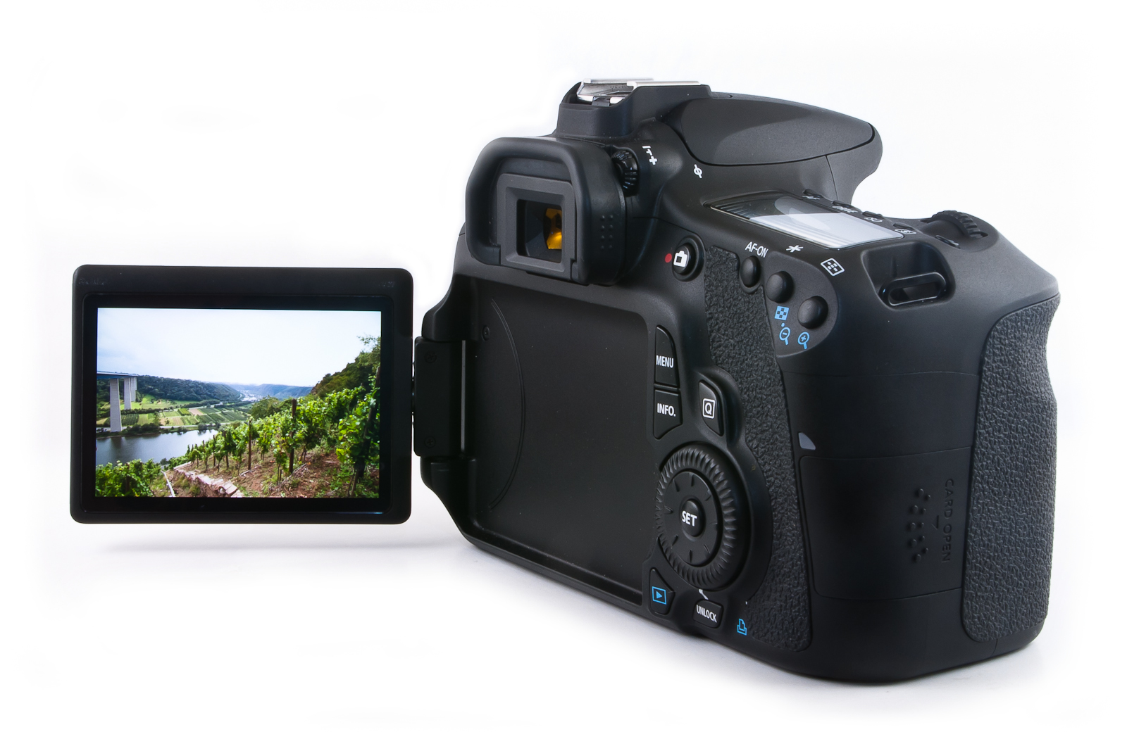 The new flip screen of a Canon EOS 60D